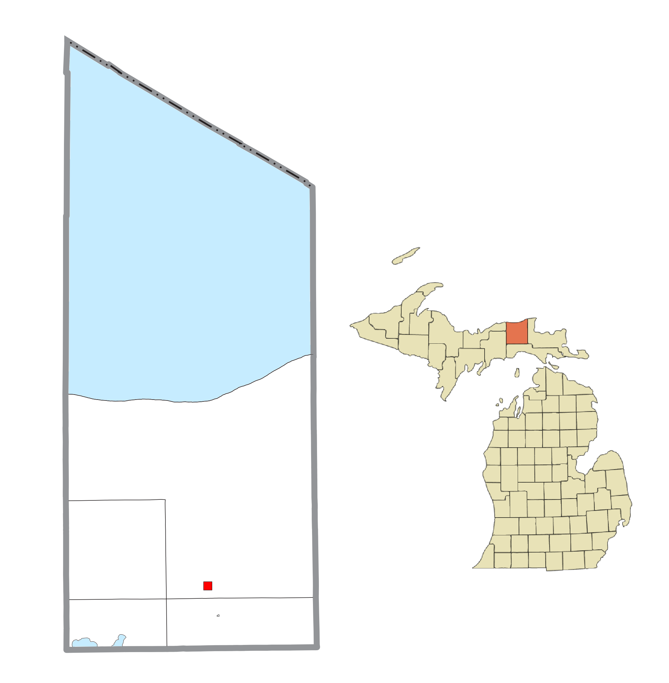 Newberry, MI